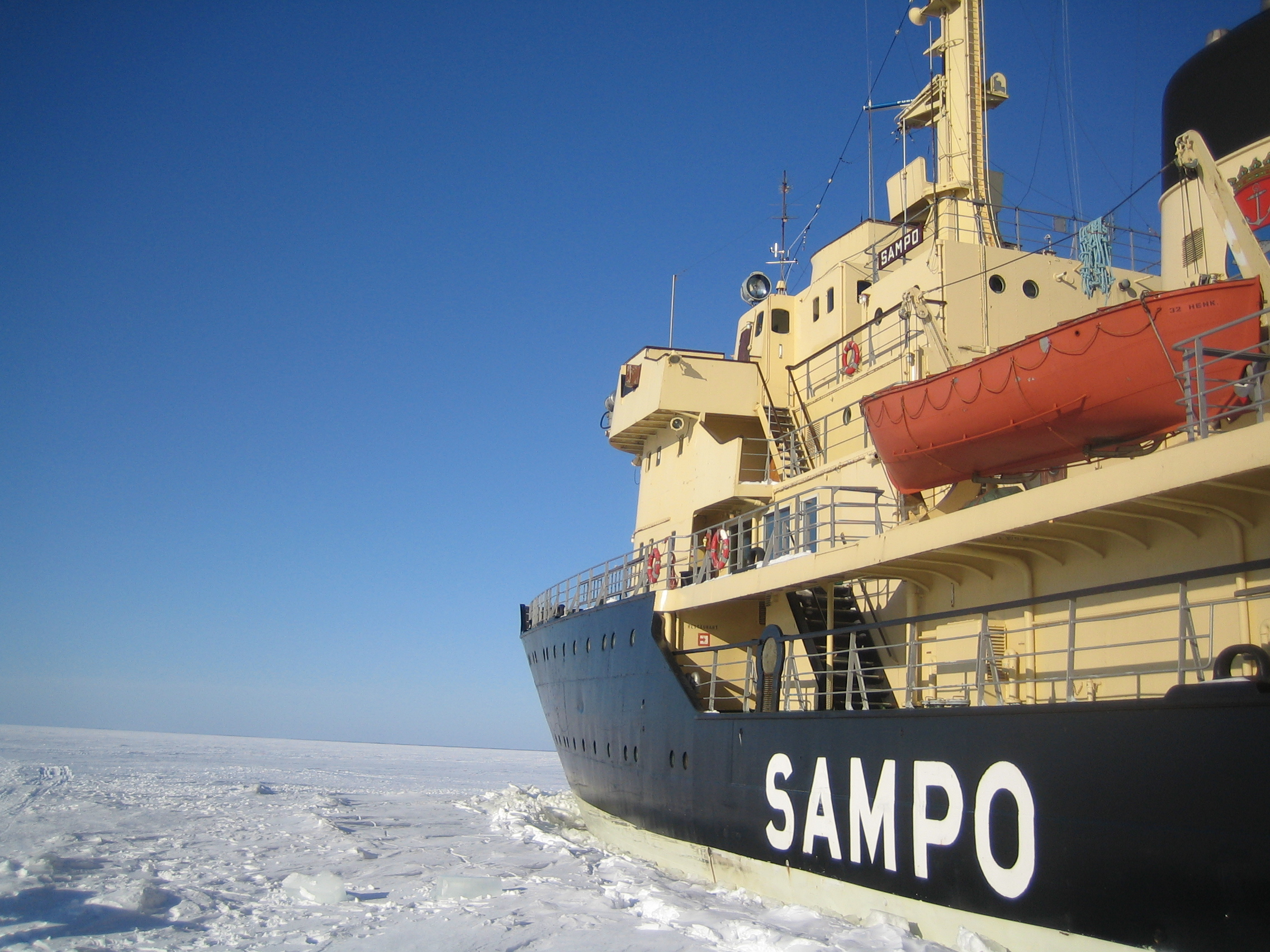 Icebreaker Sampo, finland